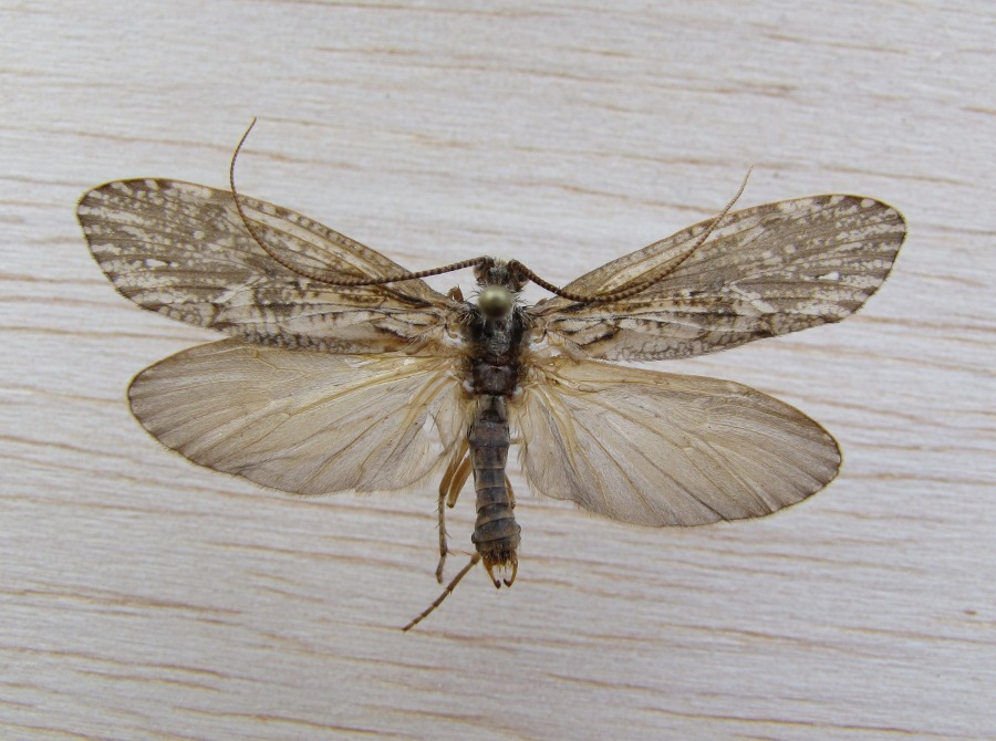 Mounted Phryganea grandis specimen. Collected 17 June 2010 in Turku, Finland.